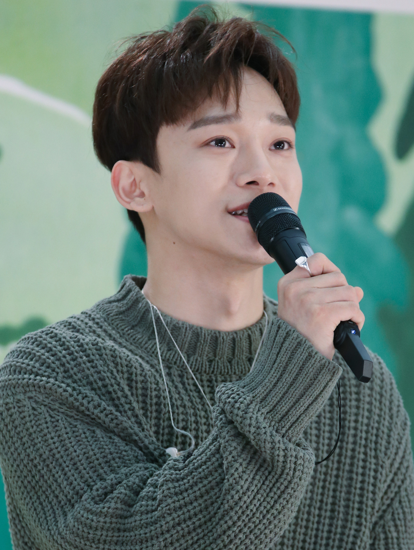 Chen at April, and a Flower showcase on April 1, 2019.